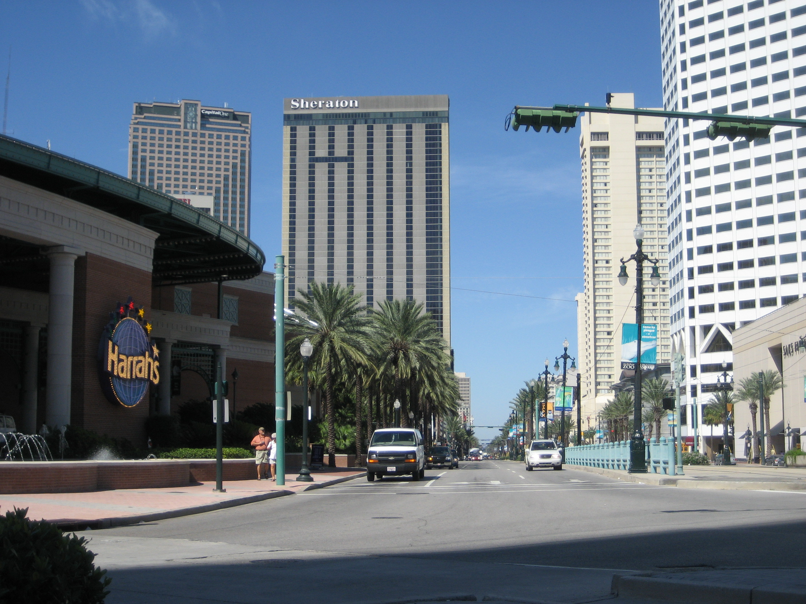 New Orleans Central Business District. View looking back from the river near the foot of Canal Street. Harrah's Casino Building at left; Sheritan Hotel building in center distance.